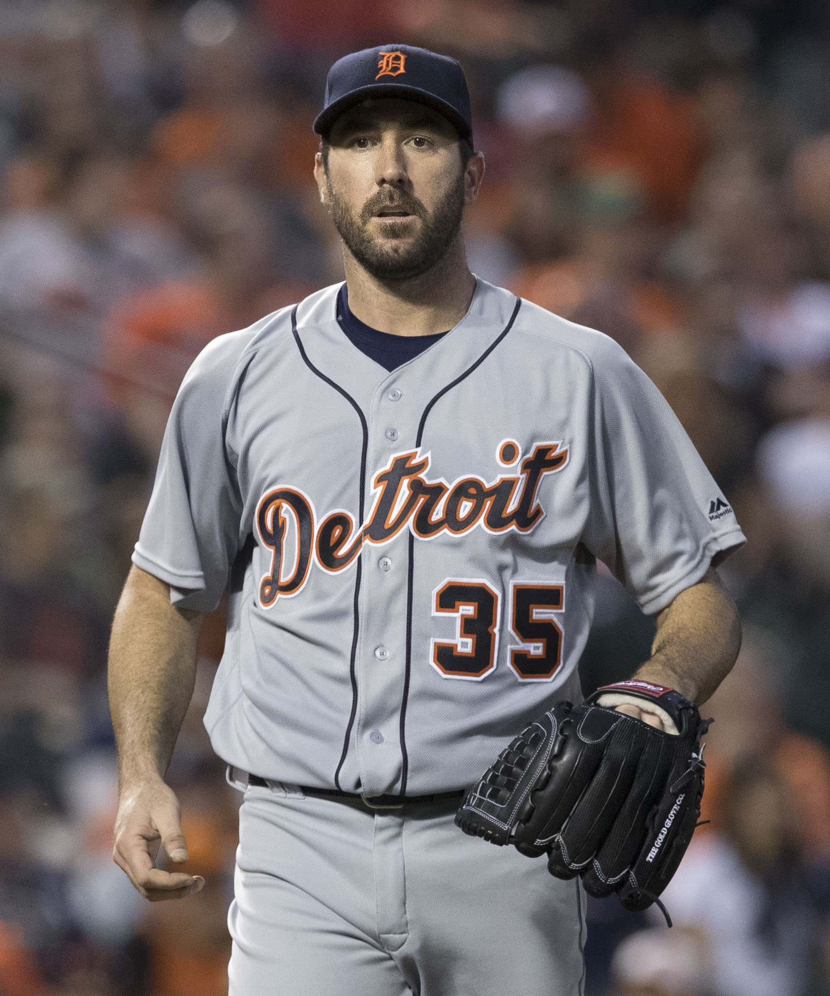 Justin Verlander at Camden Yards in Baltimore in 2016.